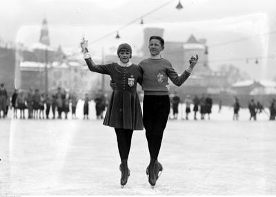 the Kalus sibilings in competition in Kraków